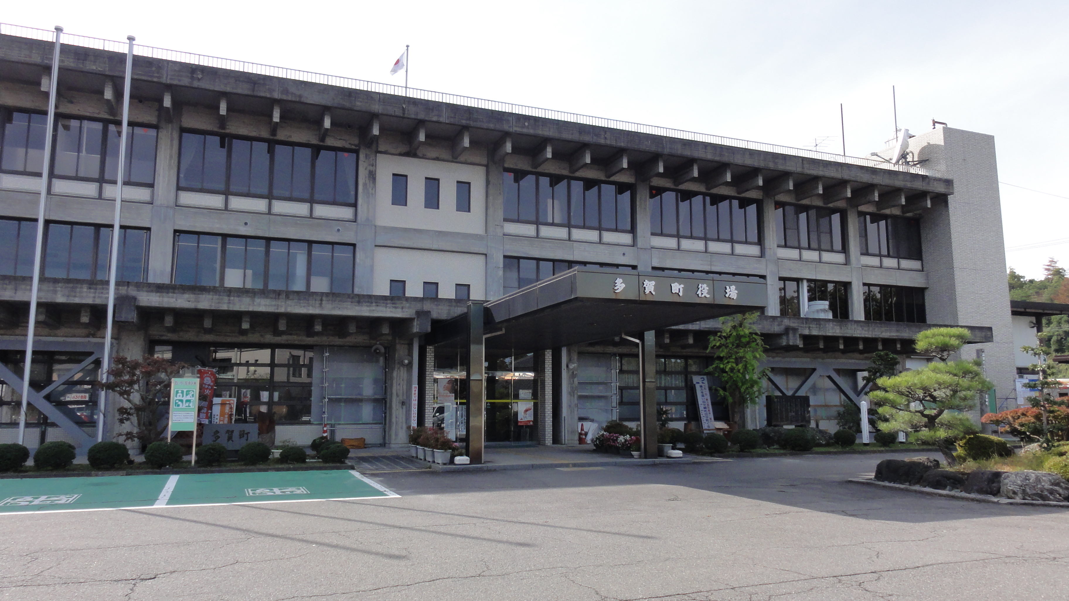 Taga town office,Shiga prefecture, Japan